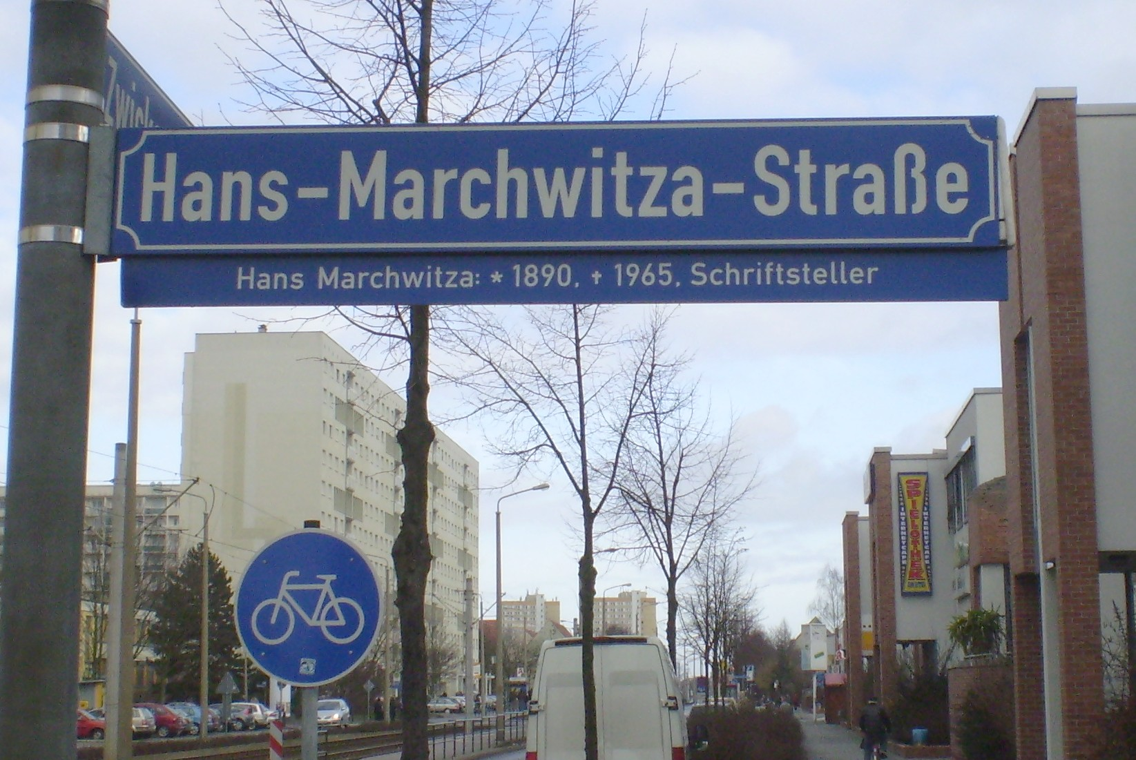 Street sign, Leipzig, Germany.